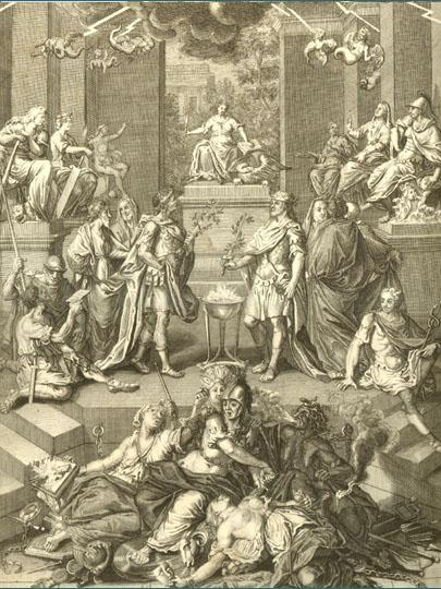 Book called "Codex diplomaticus Regni Poloniae et Magni Ducatus Lituanie" published in Vilnius, Lithuania.